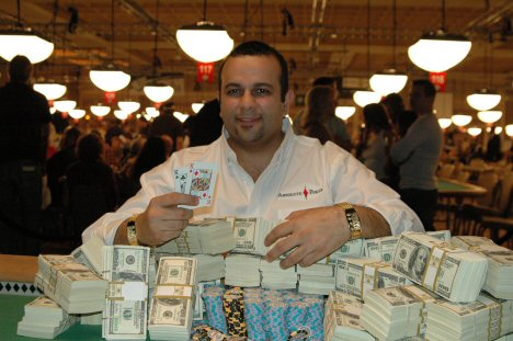 Mark Seif in 2005 World Series of Poker event in Rio Las Vegas. Mark Seif wins second 2005 WSOP bracelet.